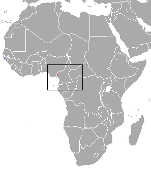 Rain Forest Shrew (Sylvisorex pluvialis) range